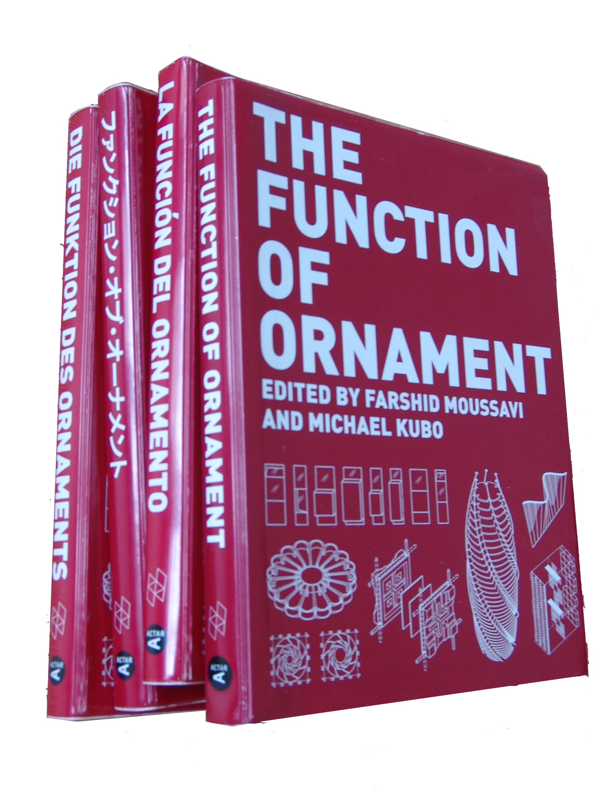 Photograph showing the Function of Ornament by Farshid Moussavi in several languages.